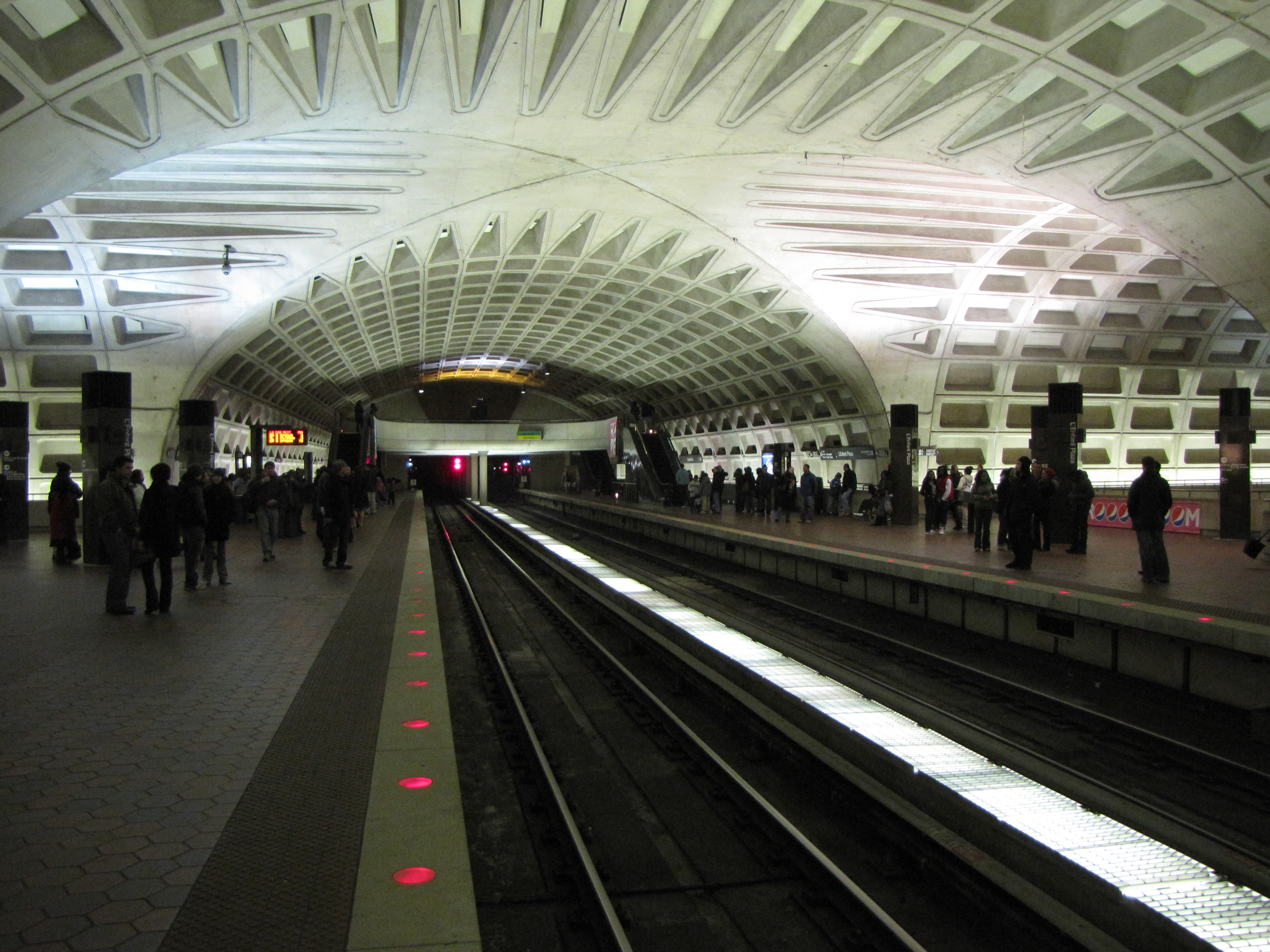 Crossvault at L'Enfant Plaza station, seen from inbound platform, upper level.